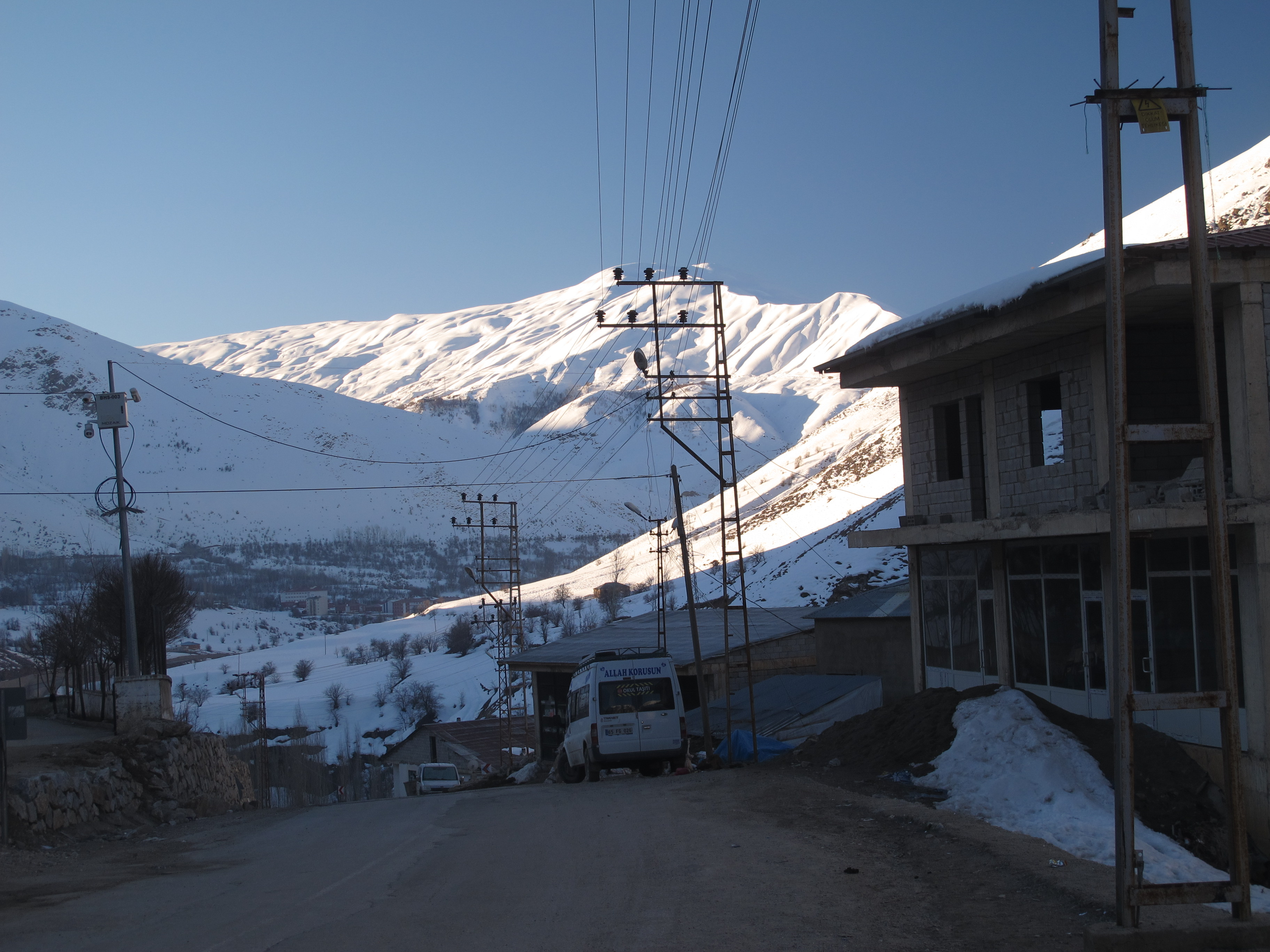 Ihtiyarsahap Mountains from Bahcesaray